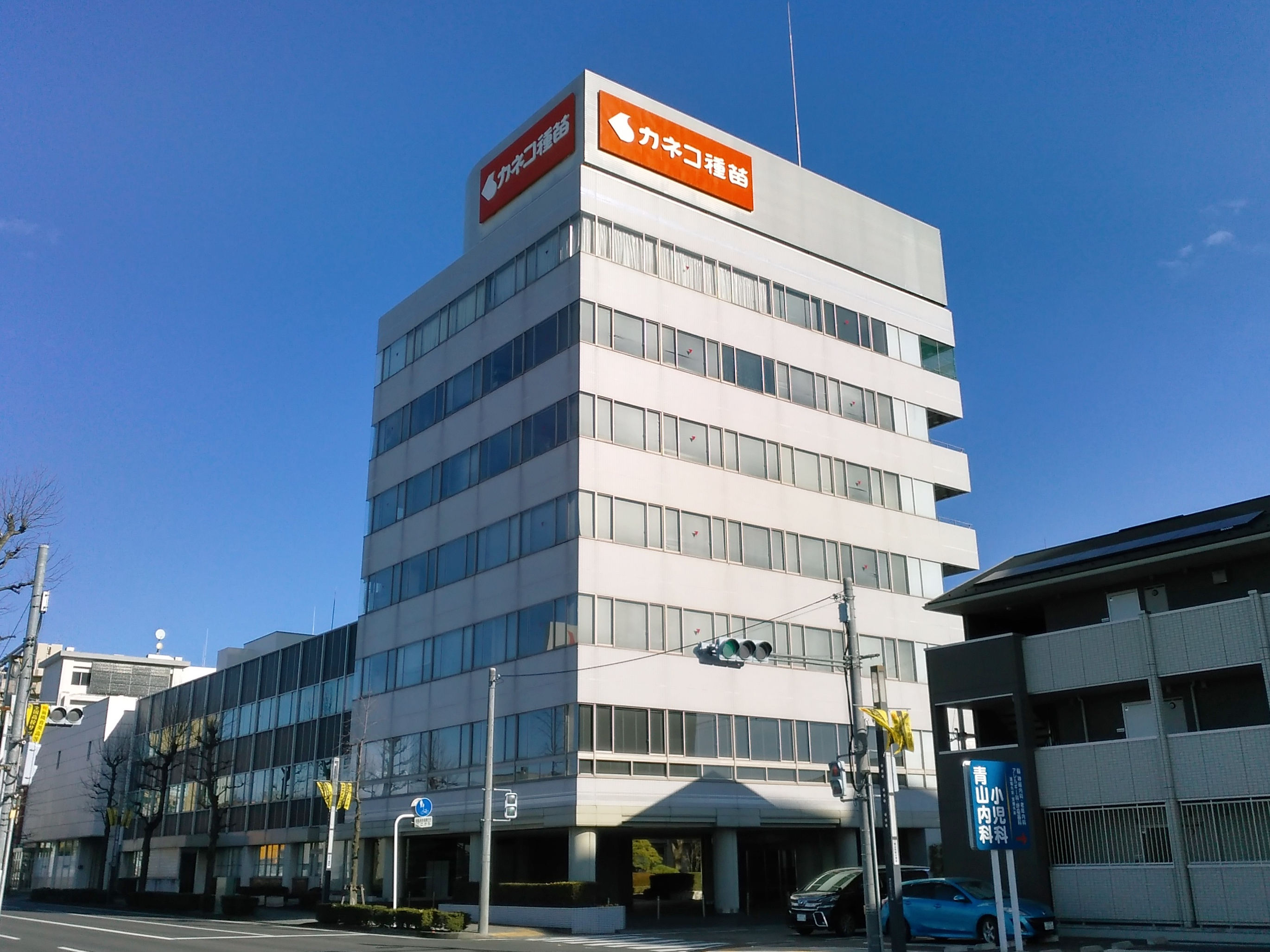 The headquarters office of Kaneko Seeds Co., Ltd. (TYO 1376) located in Maebashi, Gunma, Japan.